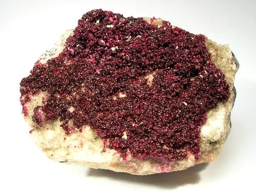 Spherocobaltite Locality: Kamoto, Kolwezi, Western area, Katanga Copper Crescent, Katanga (Shaba), Democratic Republic of Congo (Zaïre) (Locality at ) Size: 8.8 x 5.6 x 5.3 cm. Rich and very attractive coating of lustrous magenta spheres of this rare species of cobalt mineral! NOT nearly as common as cobaltian calcite, true spherocobaltites are often mistaken for the more common calcite. This is COBALT CARBONATE, though, and the best of them, like this one, were found in the heyday of copper mining in Congo/Zaire in the 1960s and 1970s. This one is VERY LARGE and well-covered, by the way. Also, not often will you find the spheres distinct enough to see with the naked eye, yet this specimen is almost completely coved with 1 mm balls of Spherocobaltite on the top.